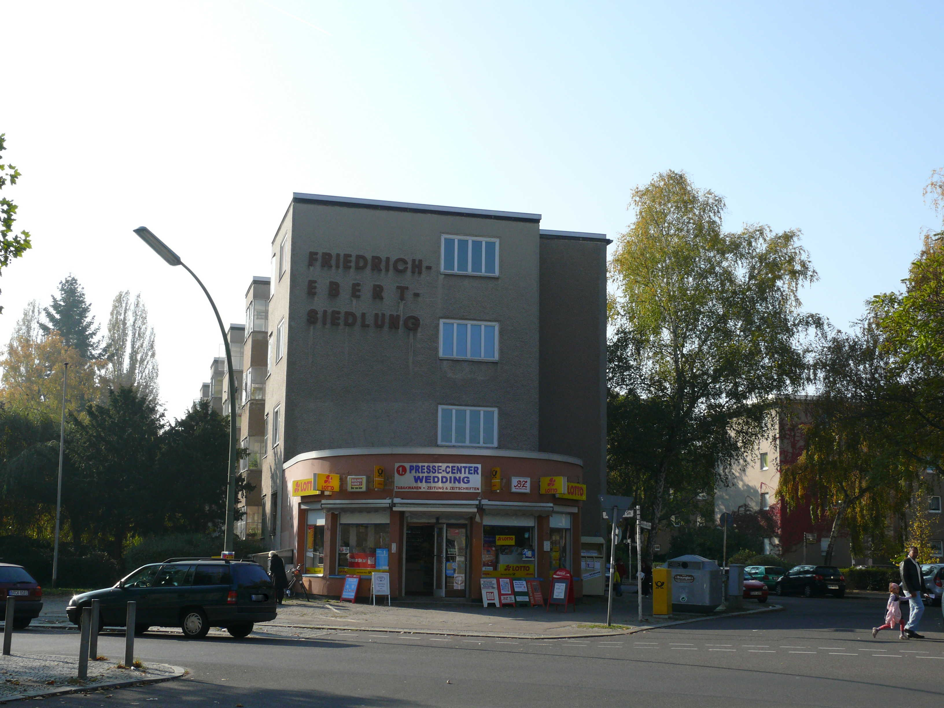 Berlin-Wedding Afrikanische Straße